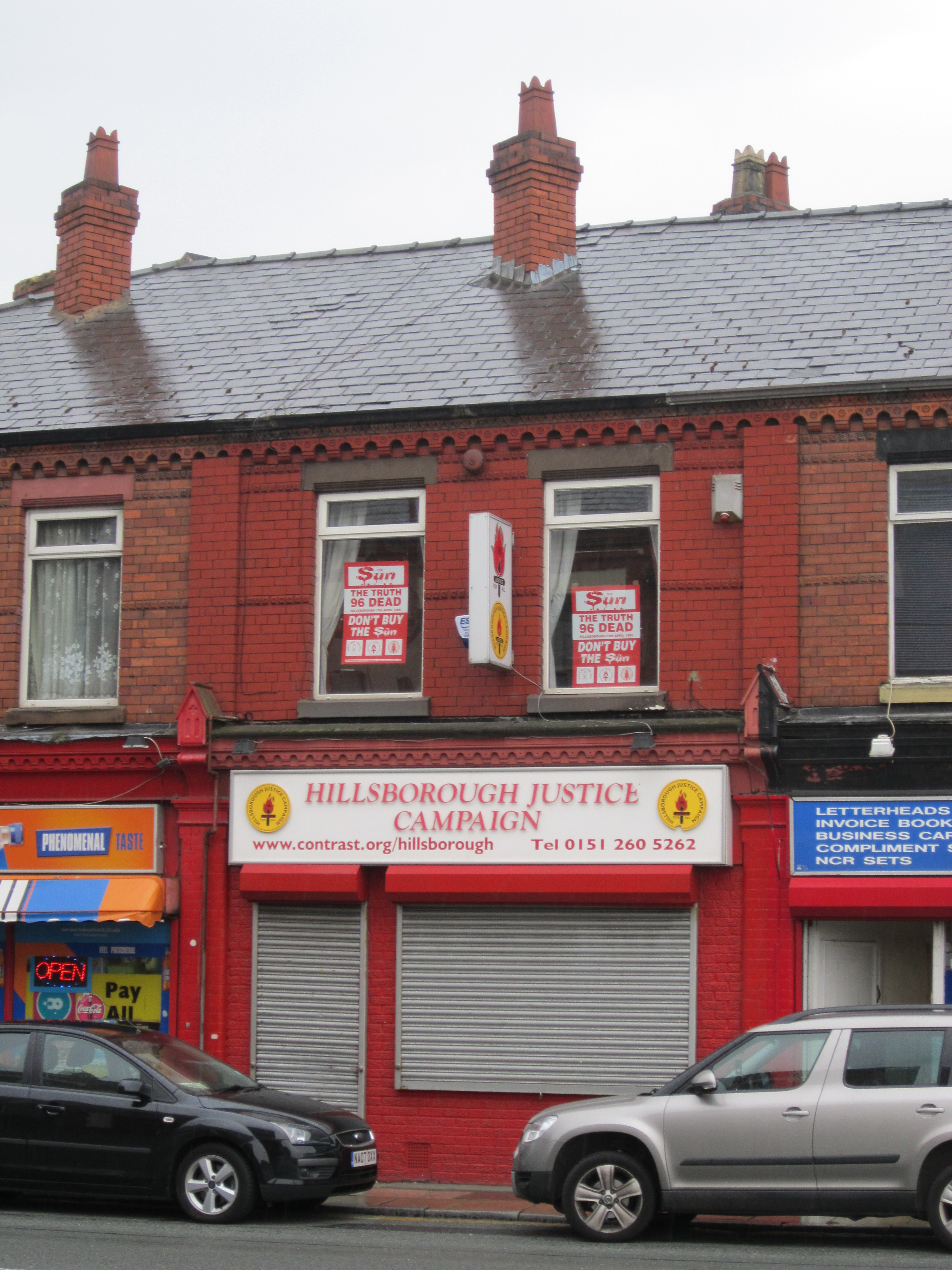 Hillsborough Justice Campaign office, Walton Breck Road, Liverpool, England. Opposite Anfield Stadium.